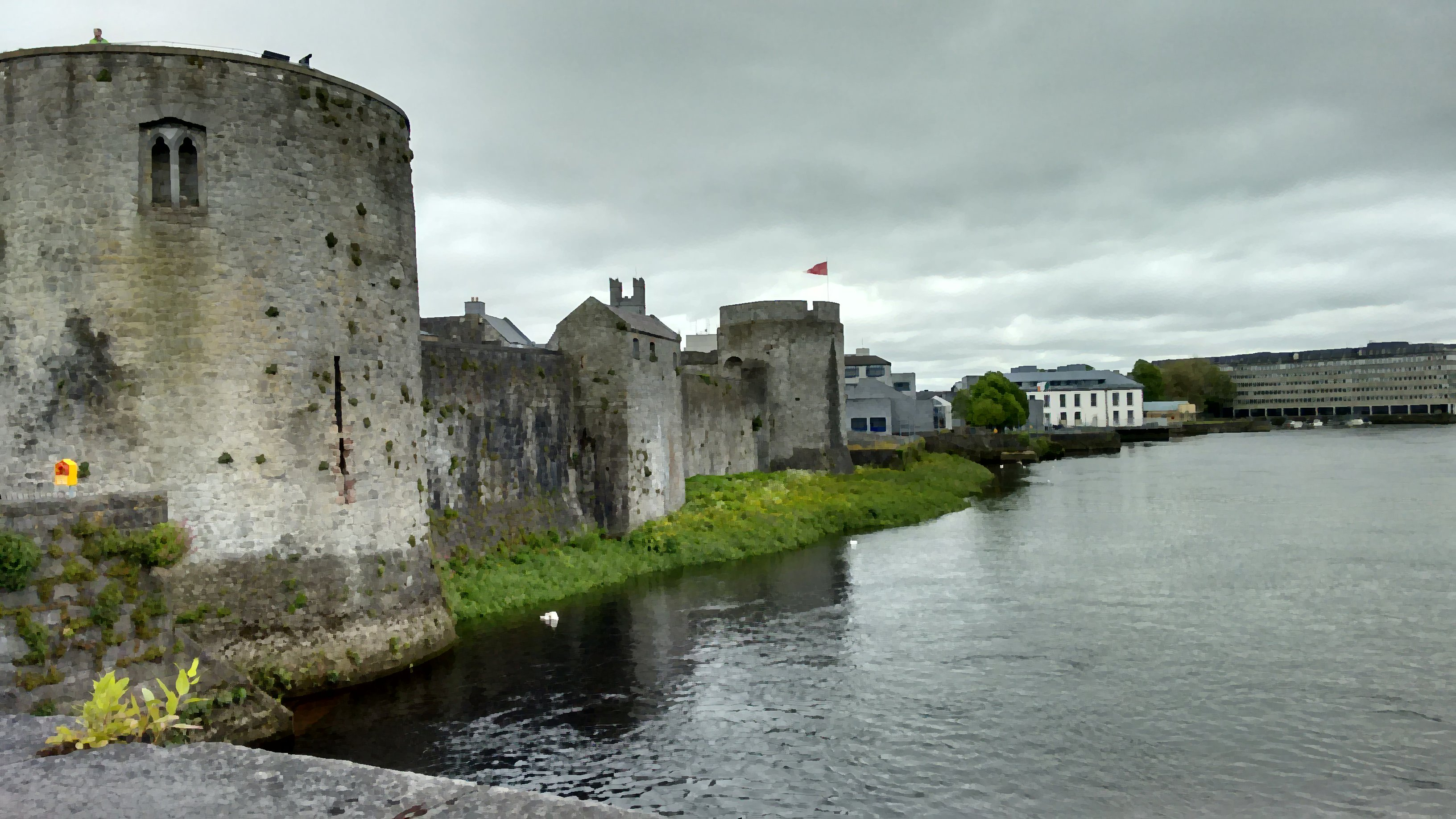 Imagem com filtro de Kuwahara aplicado com fator de 9